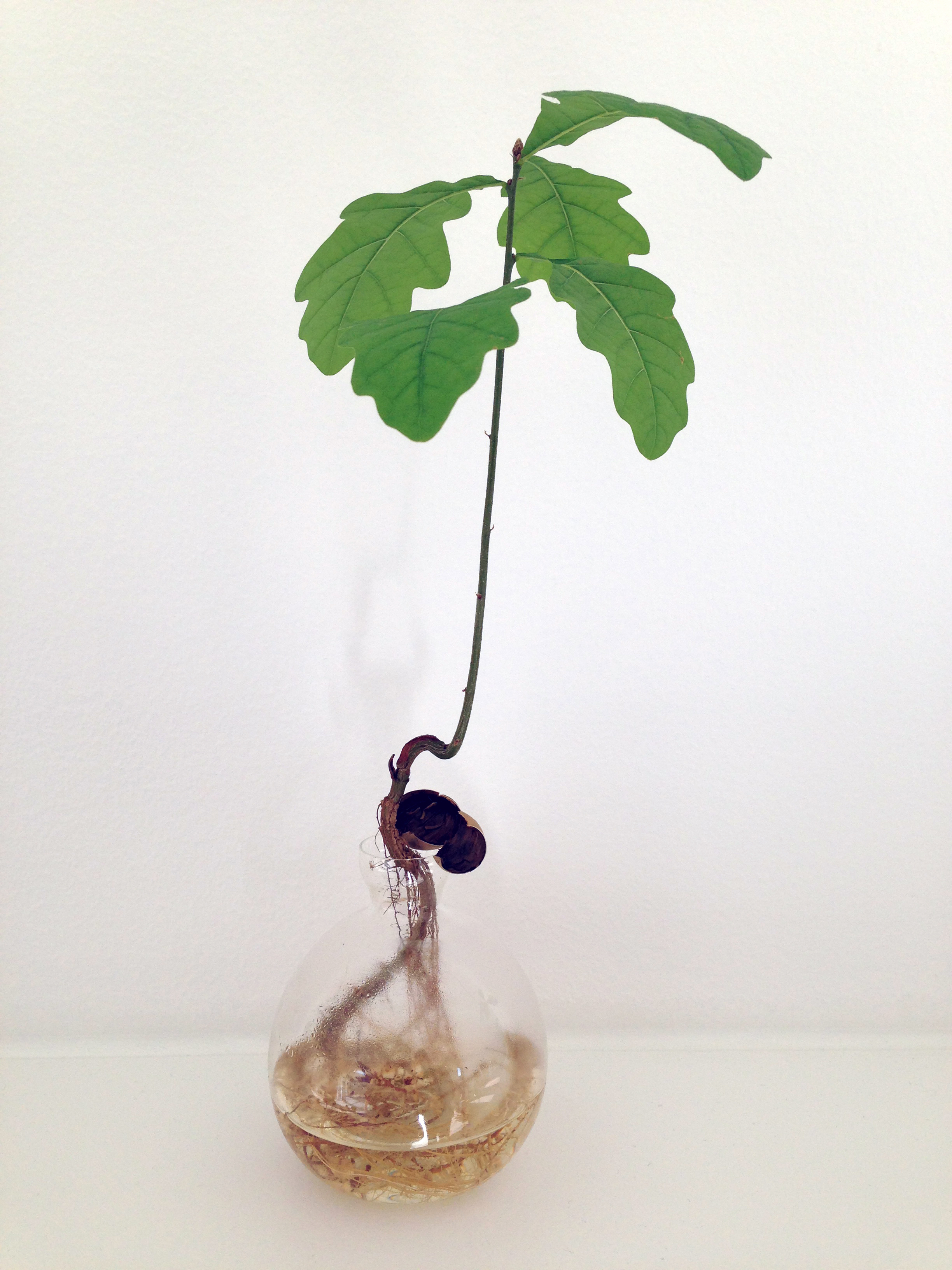 An oak sprout in a glass container.